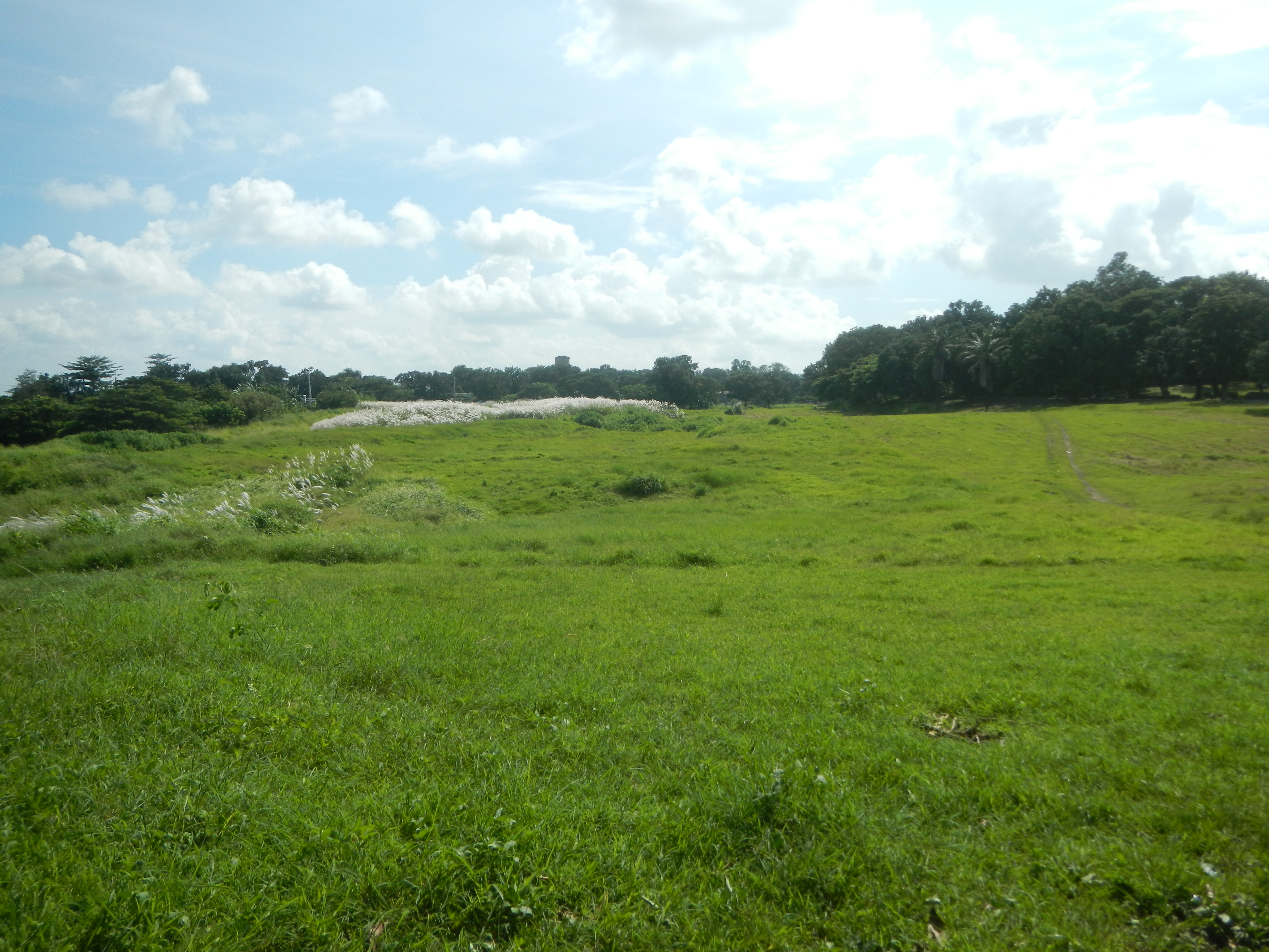 Iustitia National Bilibid Prison Reservation (Bureau of Corrections, Muntinlupa City) Eriberto B. Misa, Sr. monument Jamboree Lake (National Bilibid Prison Reservation, Bureau of Corrections, Muntinlupa City) Memorial for Peace (National Bilibid Prison Reservation, Bureau of Corrections, Muntinlupa City-Gunma-Machi, Japan) Grotto and Sunken Garden (National Bilibid Prison Reservation, Bureau of Corrections, Muntinlupa City) Itaas Elementary School (National Bilibid Prison Reservation, Bureau of Corrections, Muntinlupa City) South Luzon Expressway National Road (Alabang, Bayanan, Putatan and Poblacion), Muntinlupa City National Road (Tunasan, Muntinlupa City) Barangays Poblacion 14°22'48"N 121°1'53"E City of Muntinlupa Poblacion, Muntinlupa New Bilibid Prison Bureau of Corrections (Philippines) Putatan, Muntinlupa Tunasan Philippine highway network (Note: Judge Florentino Floro, the owner, to repeat, Donor Florentino Floro of all these photos hereby donate gratuitously, freely and unconditionally Judge Floro all these photos to and for Wikimedia Commons, exclusively, for public use of the public domain, and again without any condition whatsoever).